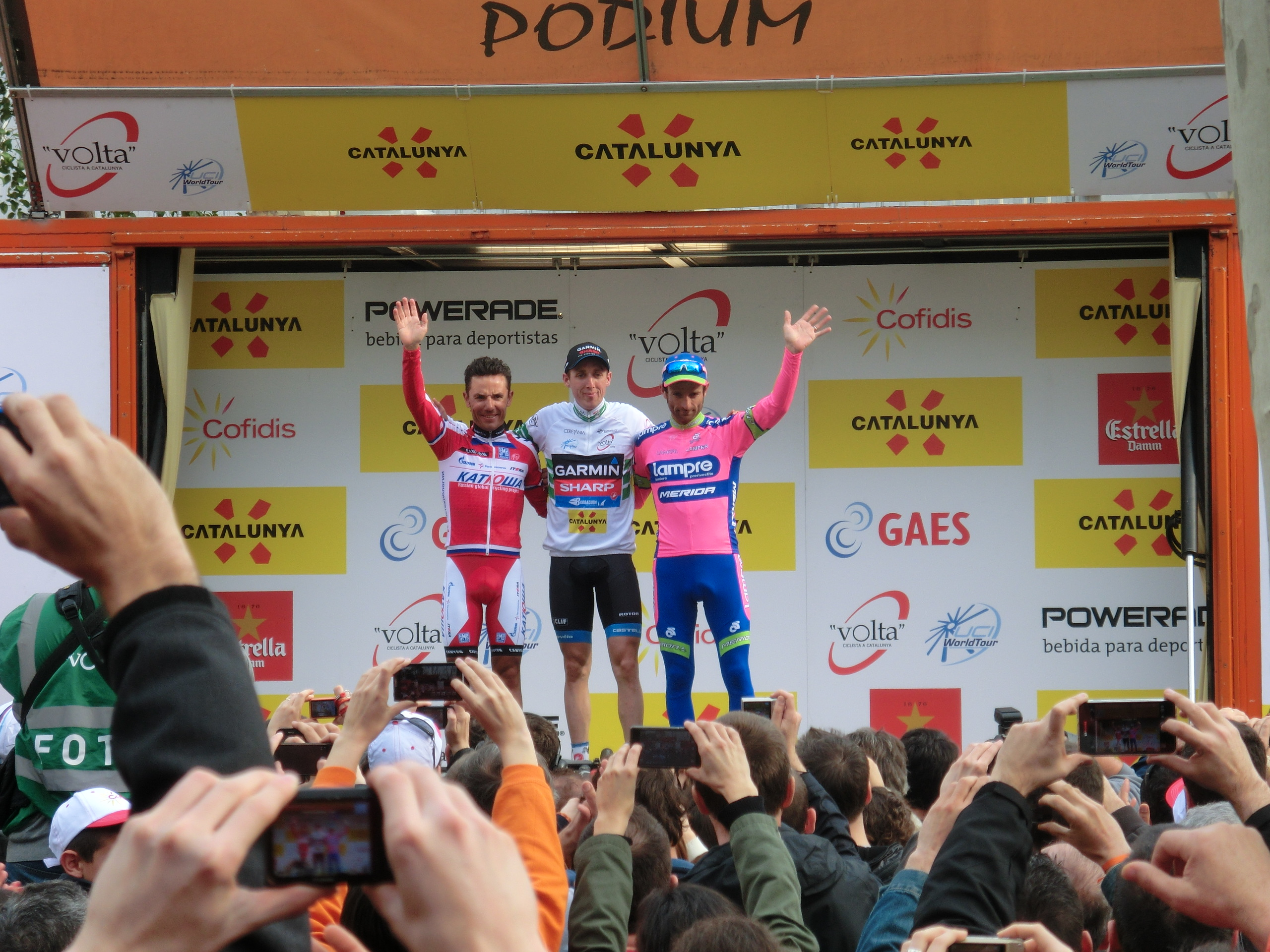 Daniel Martin, Joaquim Rodríguez ("Purito") and Michele Scarponi in the podium of 2013 Volta Catalunya.